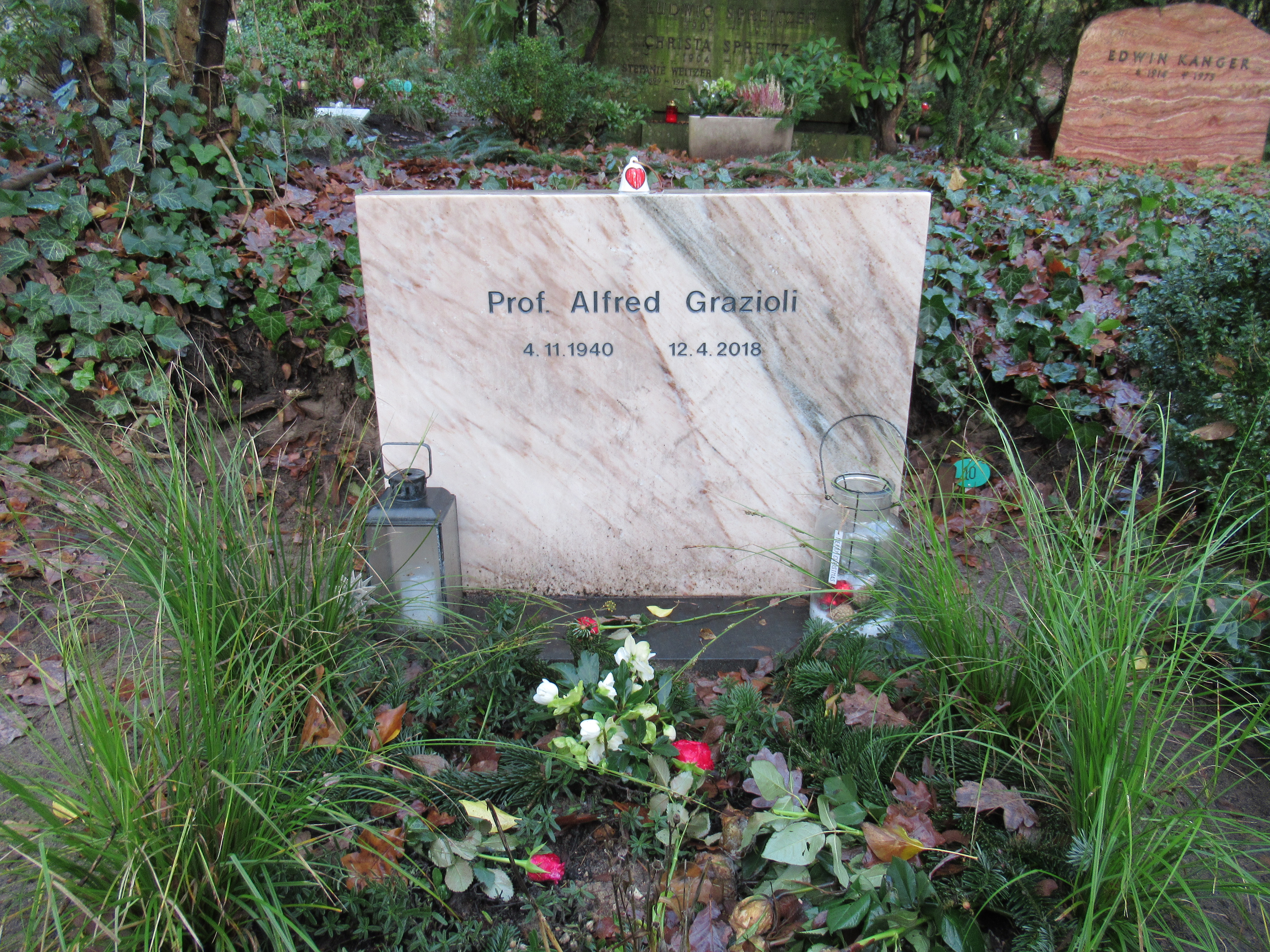 Grave of Swiss architect Alfred Grazioli at Friedhof Heerstraße in Berlin-Westend